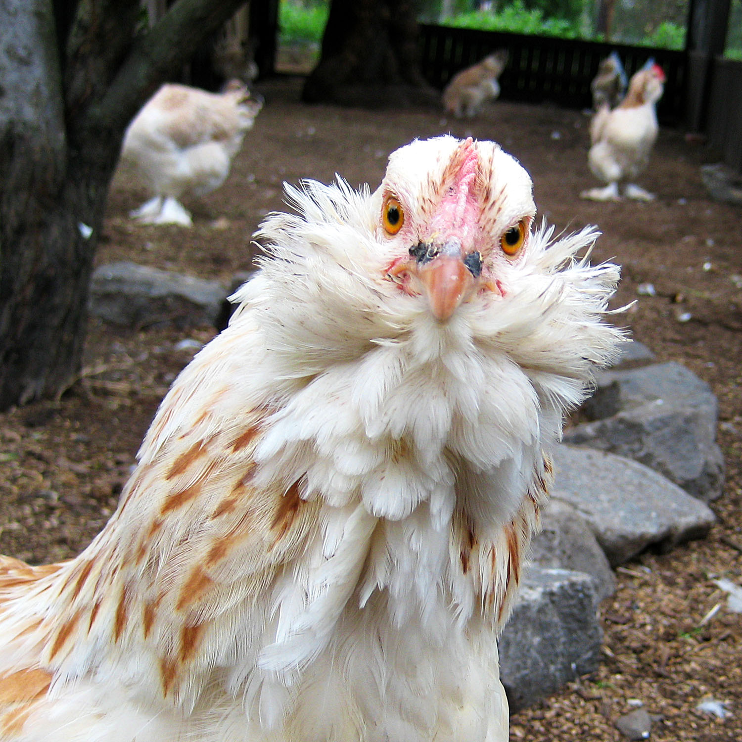 A Salmon Faverolle hen at Collingwood Children's Farm